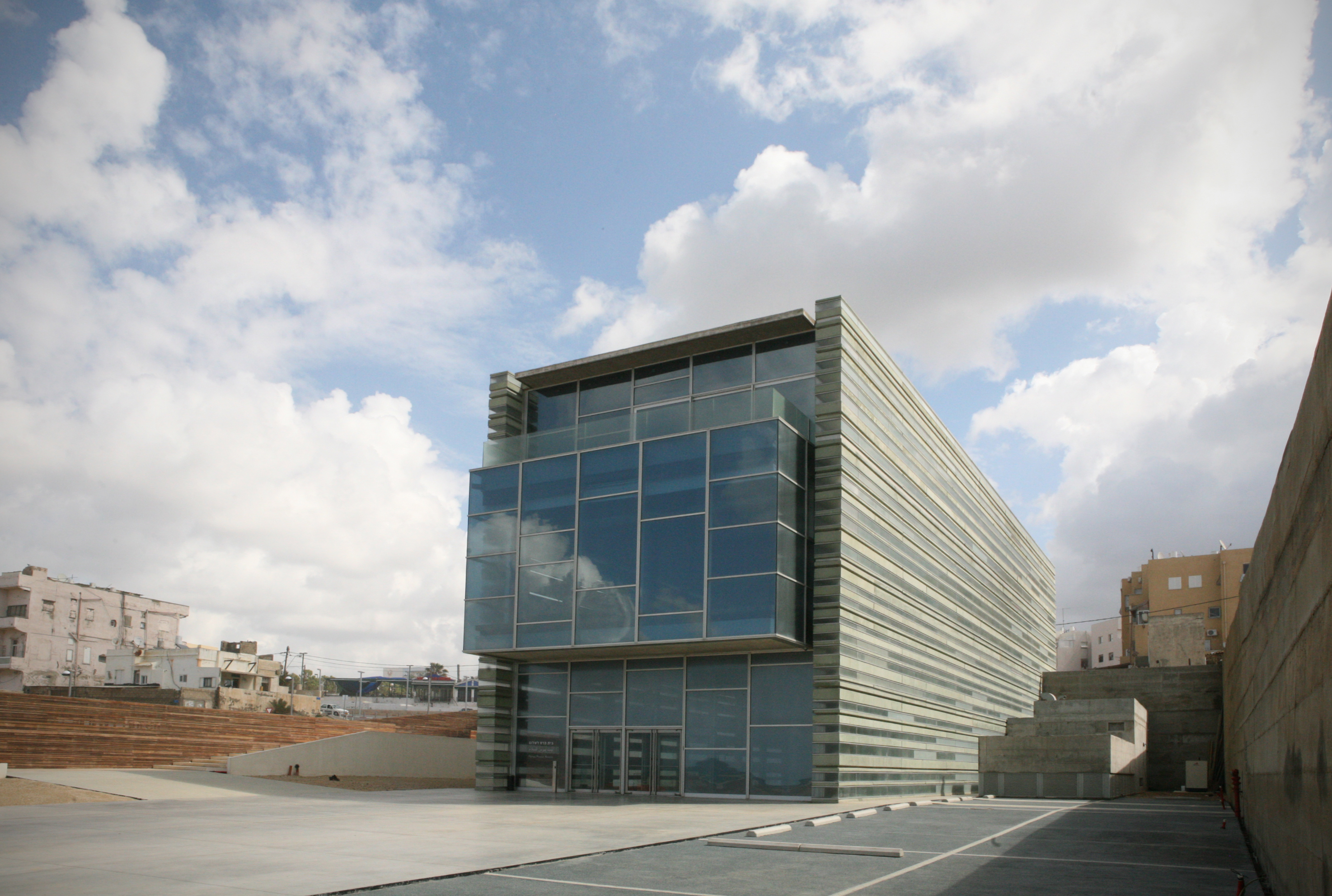 The Peres House for Peace in Ajami, Jaffa, Israel. Designed by Massimiliano Fuksas